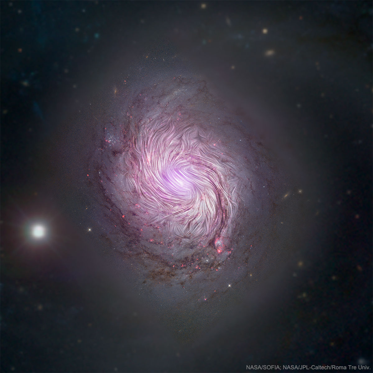 Magnetic fields in NGC 1086, or M77, are shown as streamlines over a visible light and X-ray composite image of the galaxy from the Hubble Space Telescope, the Nuclear Spectroscopic Array, and the Sloan Digital Sky Survey. The magnetic fields align along the entire length of the massive spiral arms — 24,000 light years across (0.8 kiloparsecs) — implying that the gravitational forces that created the galaxy’s shape are also compressing the its magnetic field. This supports the leading theory of how the spiral arms are forced into their iconic shape known as “density wave theory.” SOFIA studied the galaxy using far-infrared light (89 microns) to reveal facets of its magnetic fields that previous observations using visible and radio telescopes could not detect.